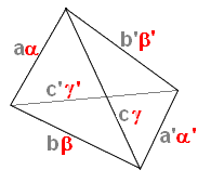 Illustration for a discussion on the Law of Sines in trigonometry